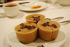 red bean rice cake